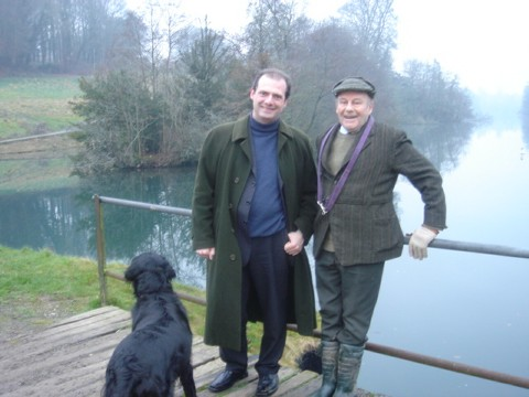 Julian Bream and Stefano Grondona (2004)